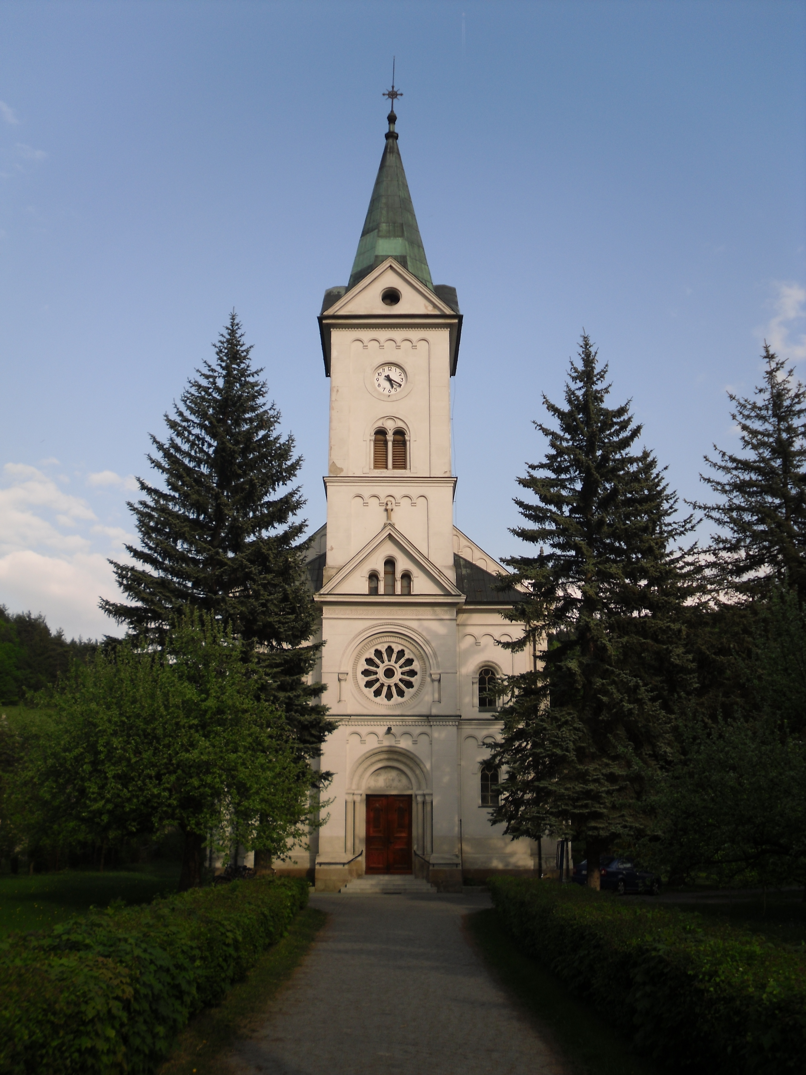 Trnava (Zlín District), Czech Republic - front view of the church